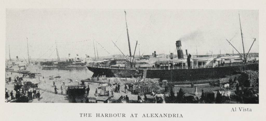 A wide view of a harbor with a large steamboat docked.